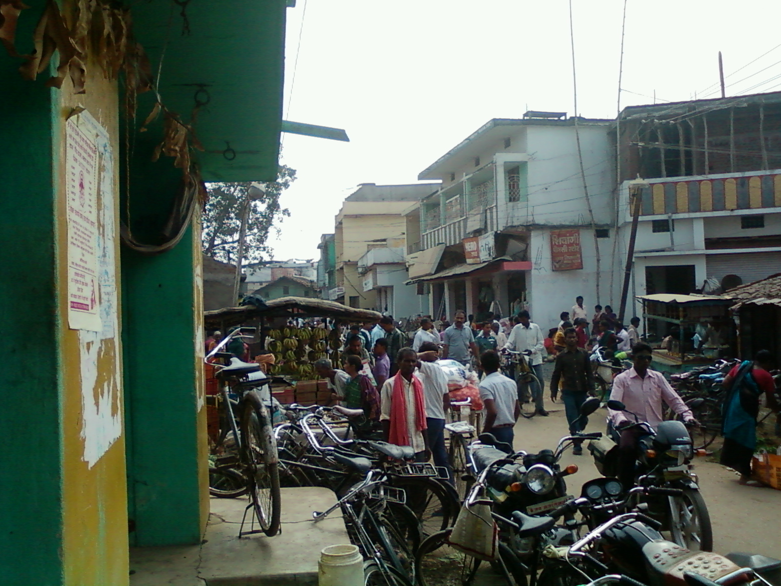 A scene of busy street of khariar.